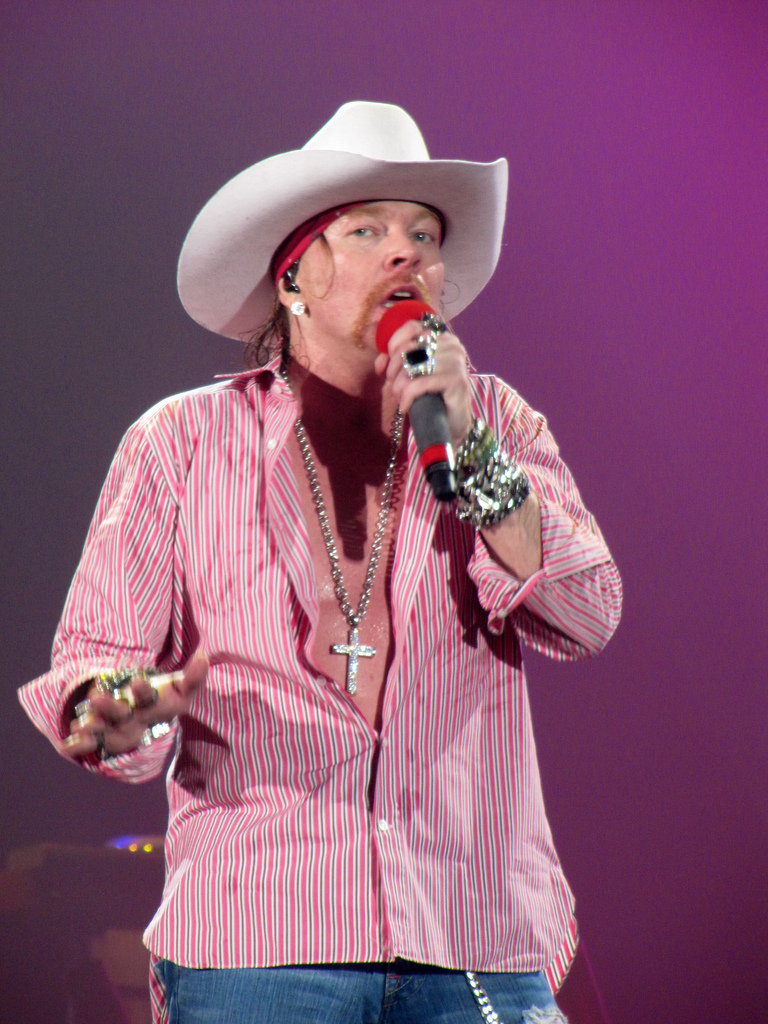 Axl Rose performing in 2010.